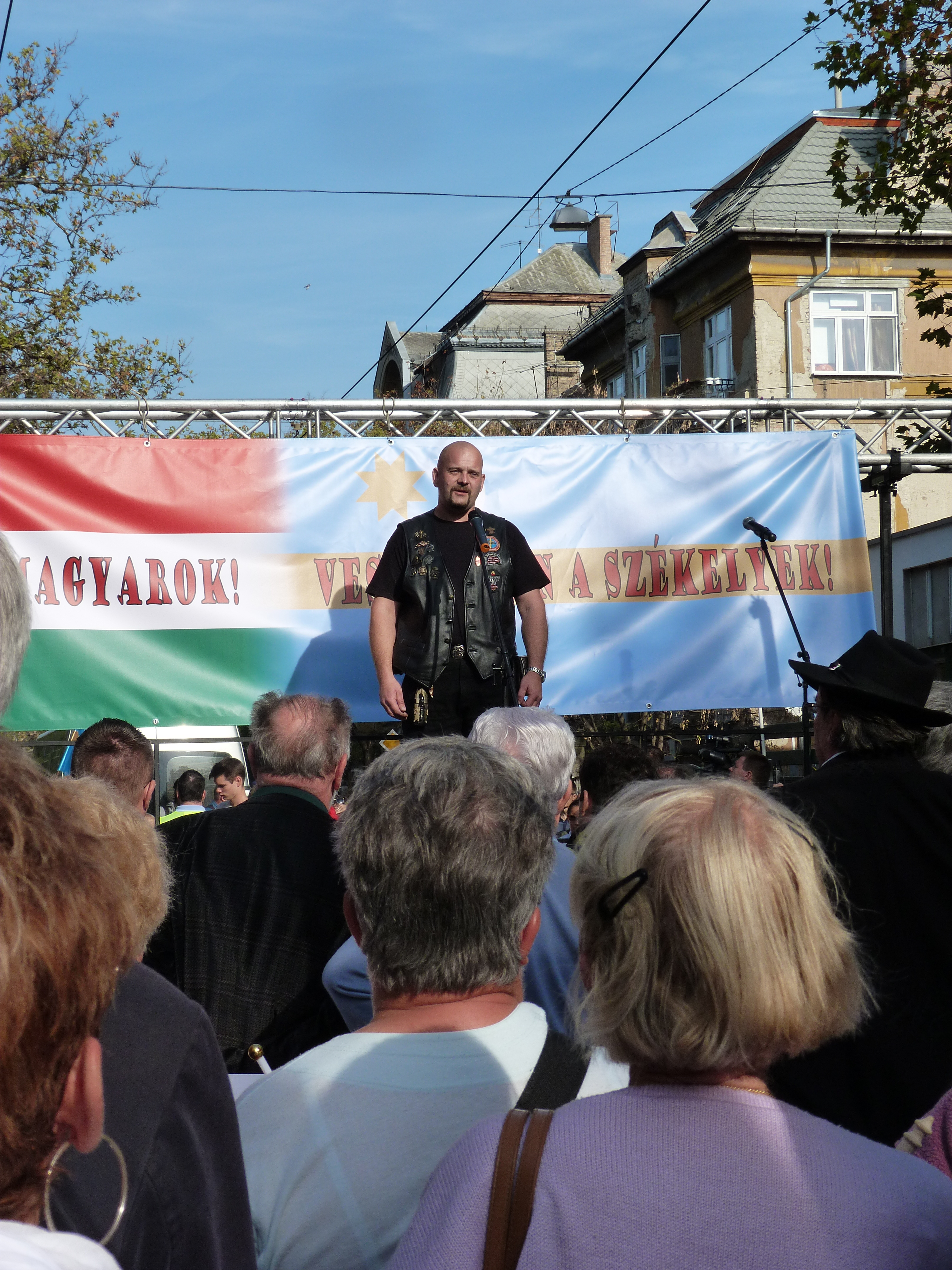 Székely (pronounced [ˈseːkɛj]) Land or Szeklerland (Hungarian: Székelyföld; Romanian: Ţinutul Secuiesc